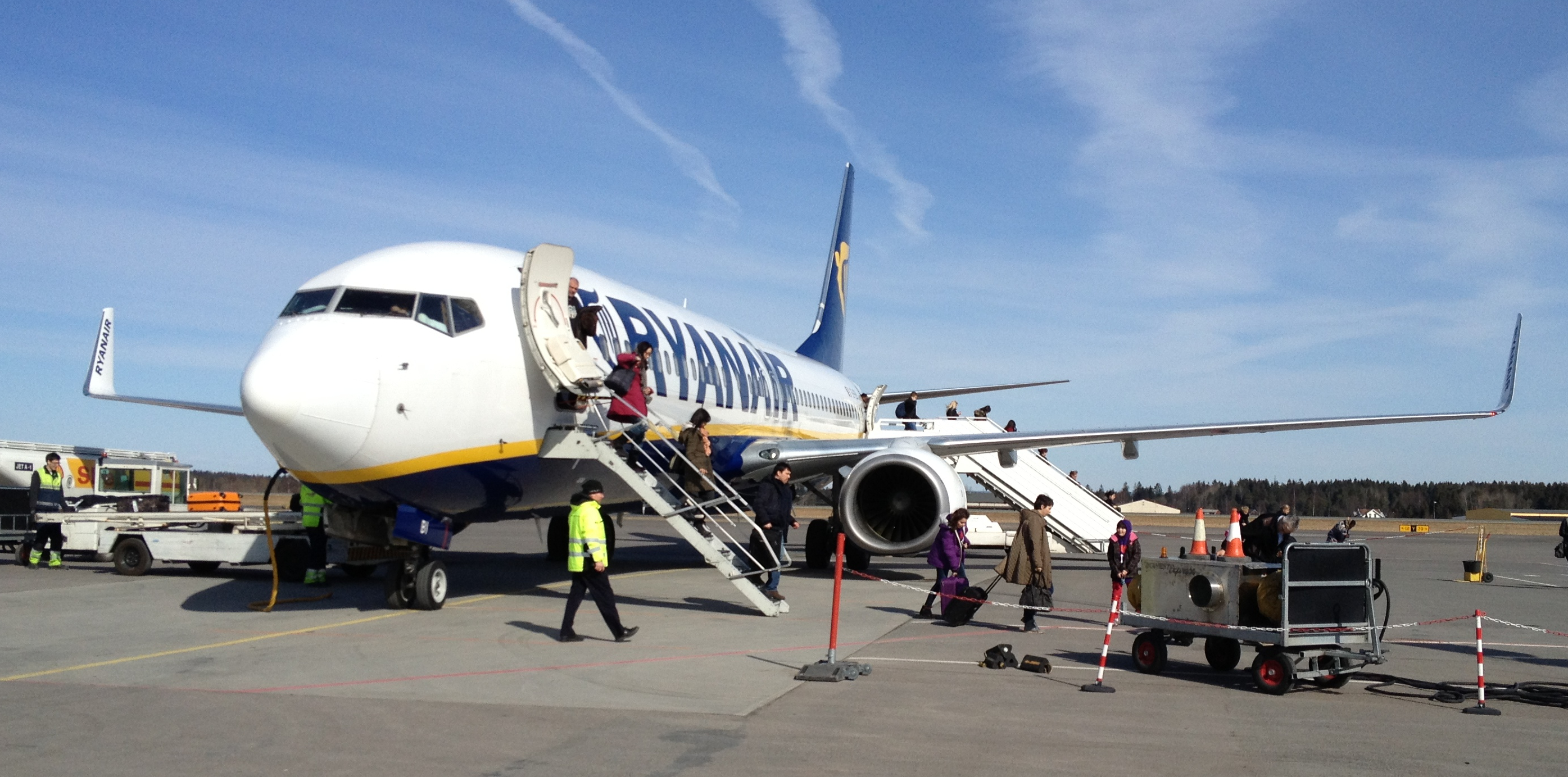 A Boeing 737-800 from Ryanair at Moss Airport, Rygge